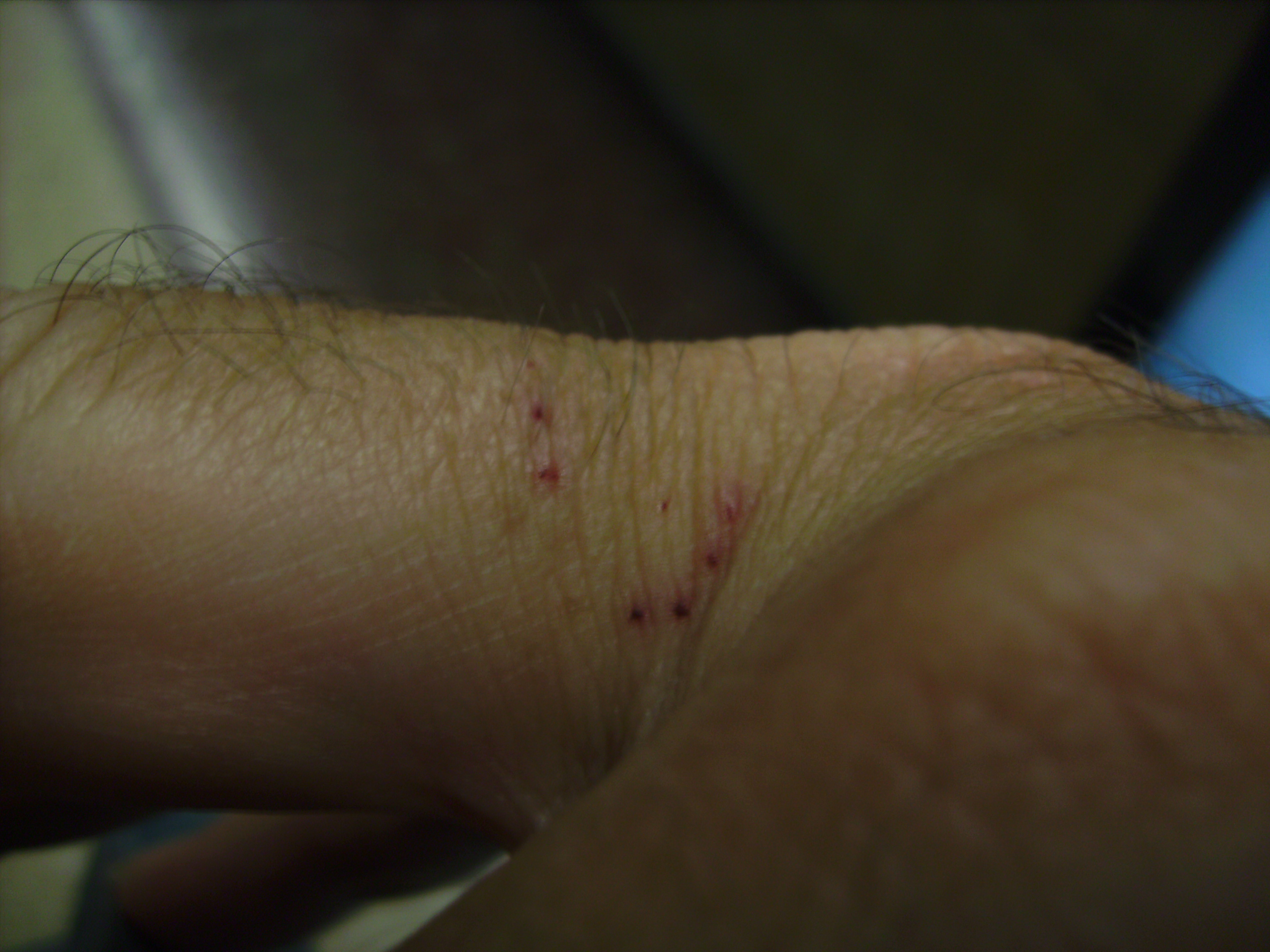 The bit of the snake Malpolon monspessulanus on a human finger, dont hurt and it is not dangerous